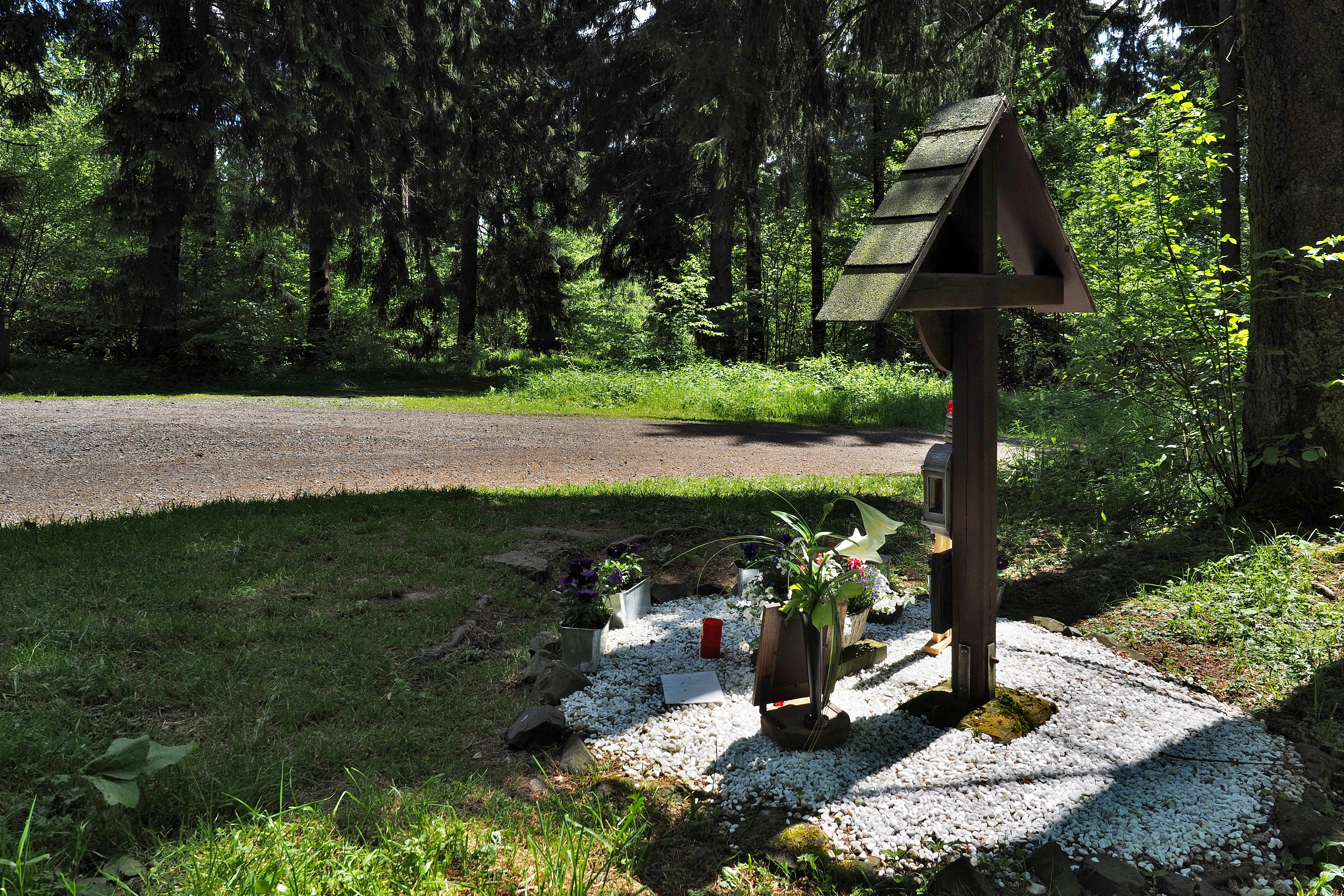 Memorial cross for two boy scouts who were fatally injured in 1995 in a game of tug-of-war when the rope snapped